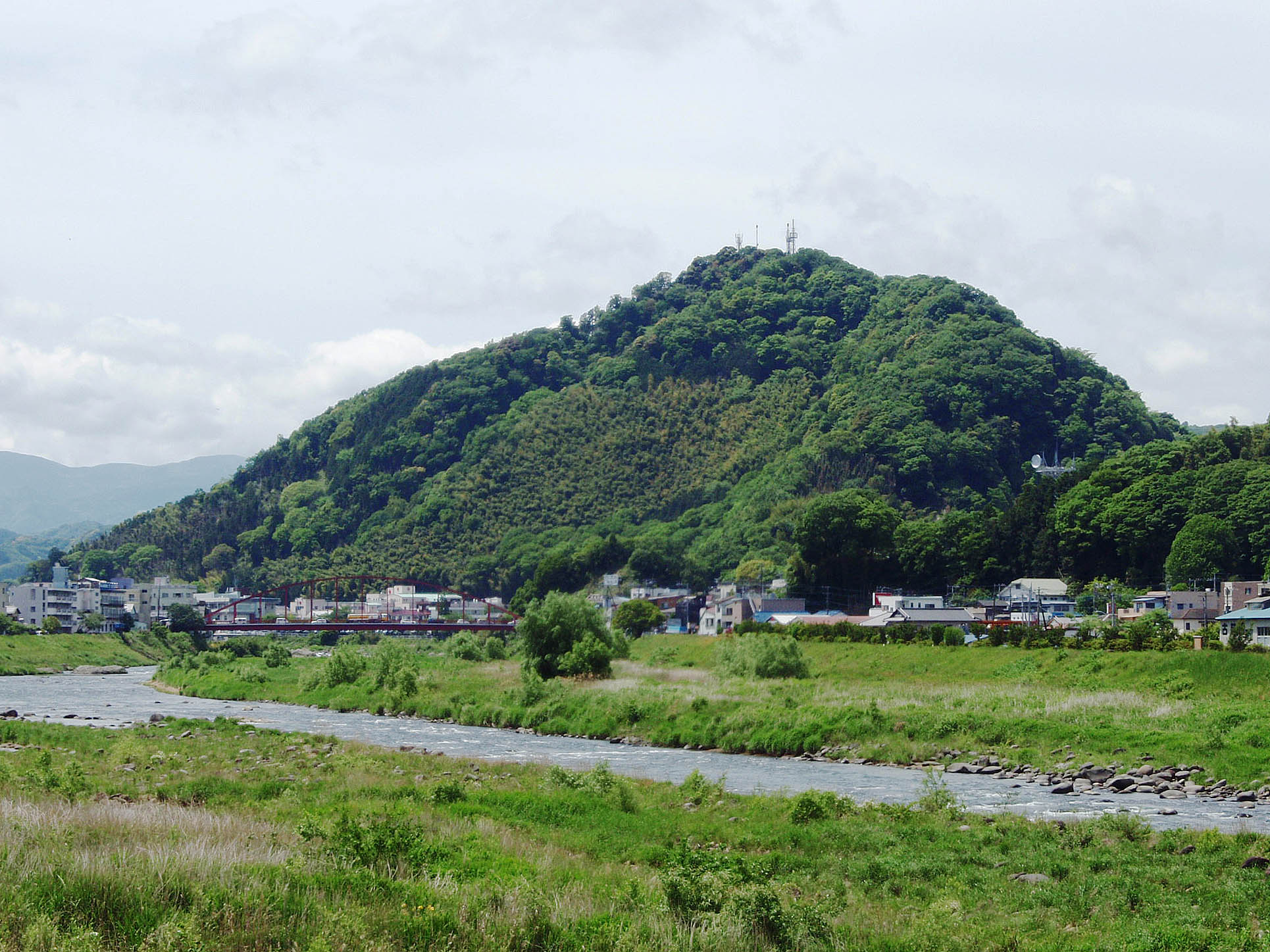 Mount Shiro (Shiro-yama) as seen from the northeast in Izu city, Shizuoka Prefecture, Japan. Kano River in the foreground.